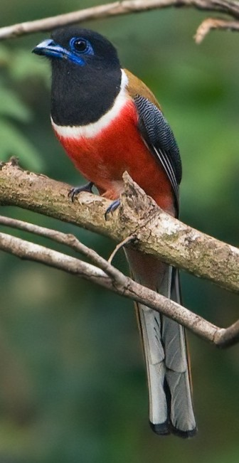 Male Malabar Trogon (Harpactes fasciatus) At Ganeshgudi of Western Ghats of India.